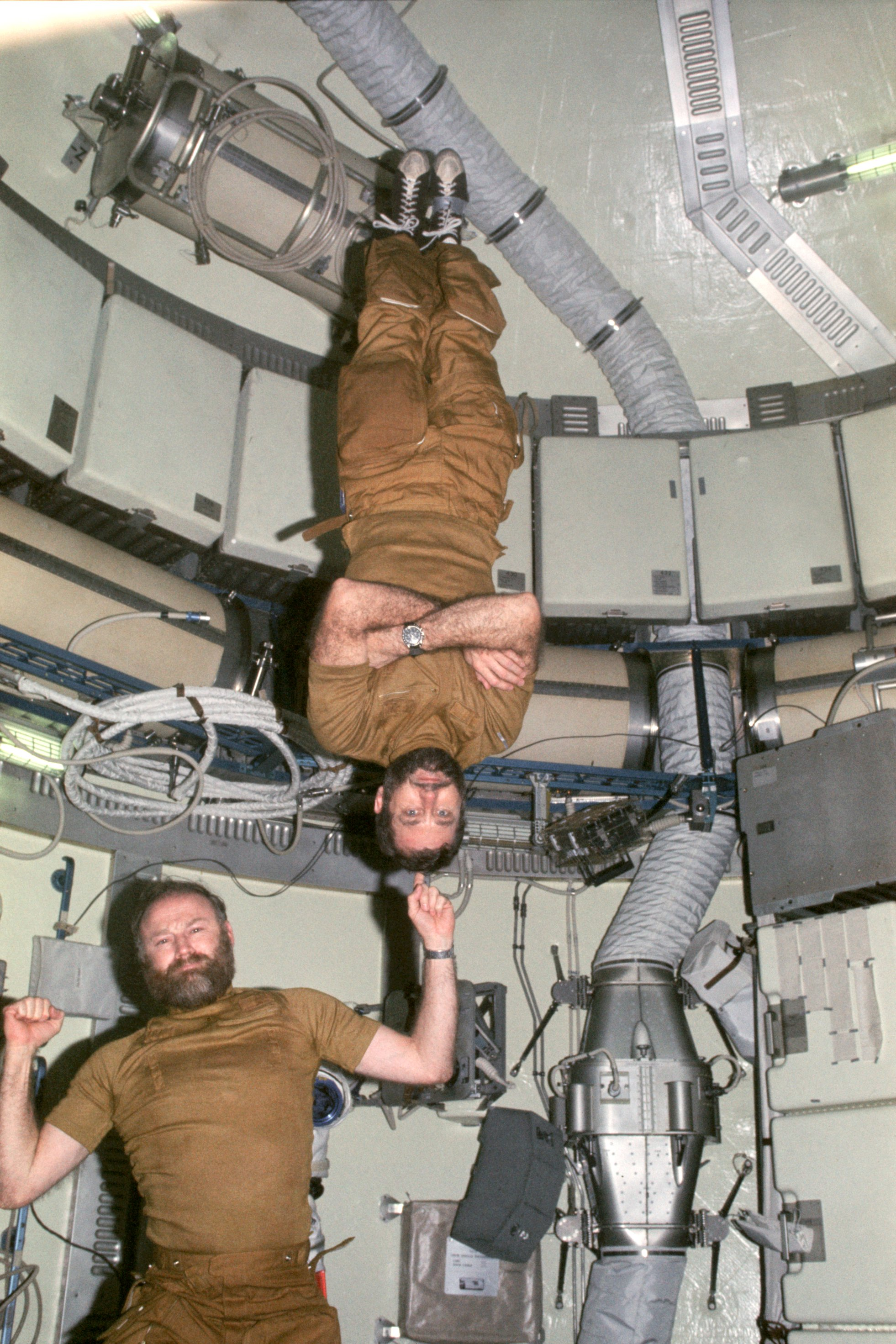 Astronaut Gerald P. Carr, Commander for the Skylab 4 mission, jokingly demonstrates weight training in zero-gravity as he balances astronaut William R. Pogue, pilot, upside down on his finger.